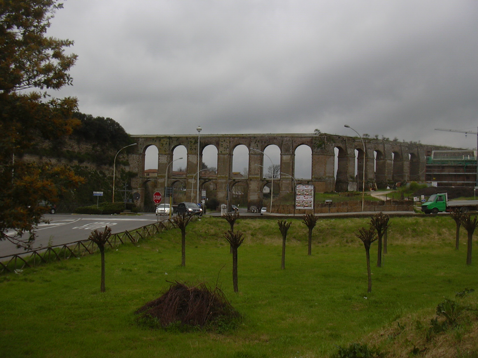 Nepi (Latium), aqueduct